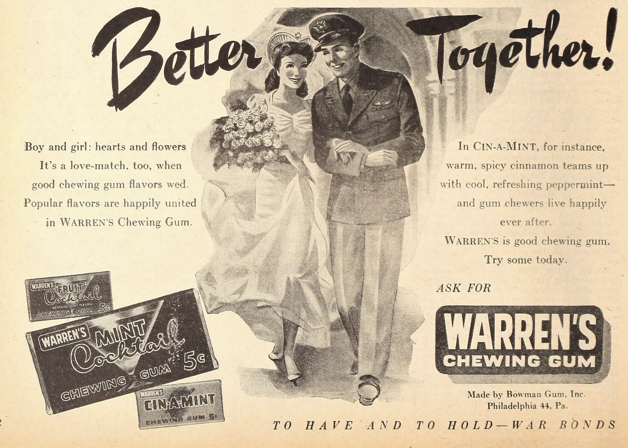 "Better Together!", advertising of Warren's (chewing gum brand of Bowman Gum).